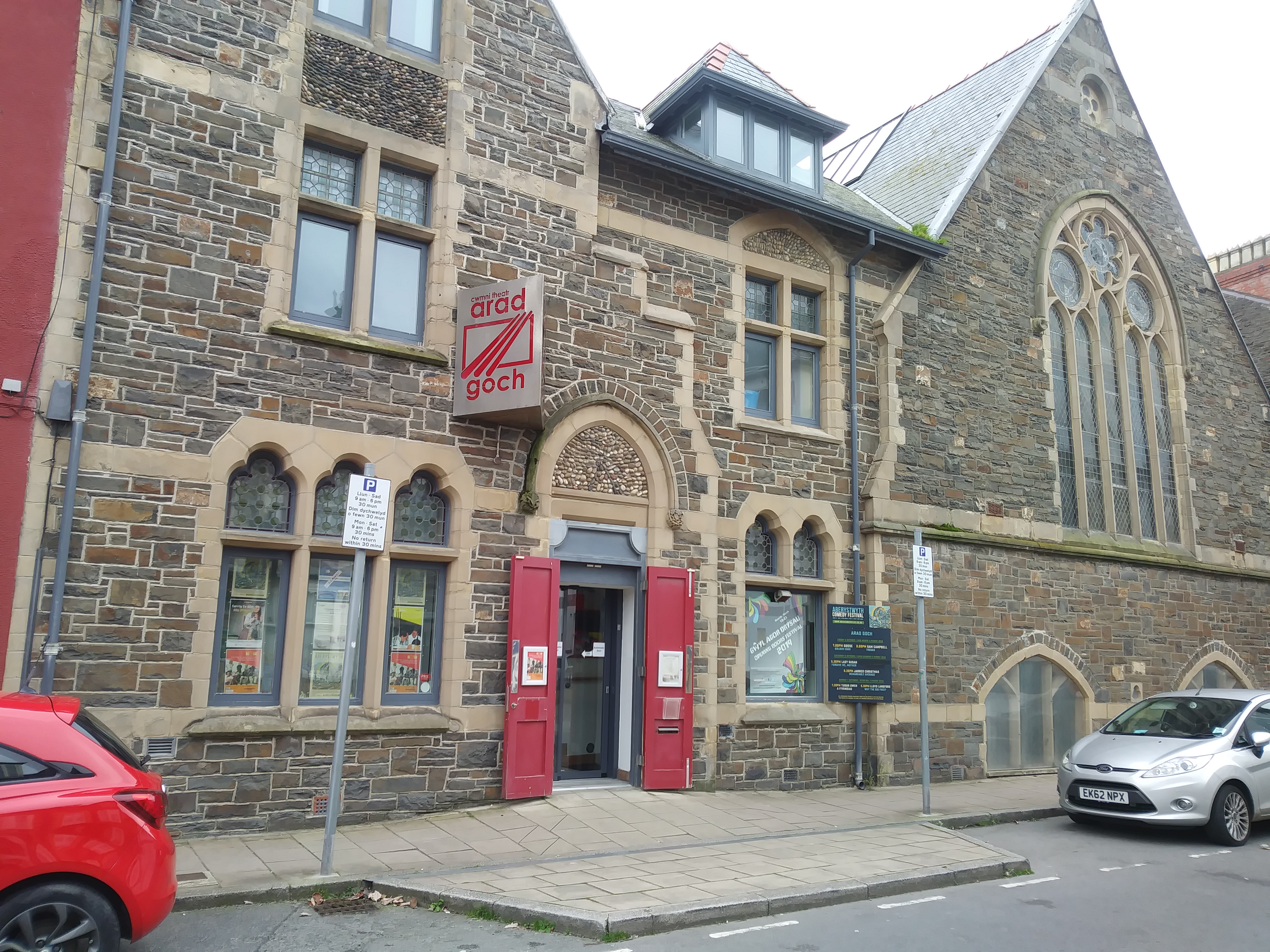 Arad Goch Theatre building Bath St, Aberystwyth Oct. 2018